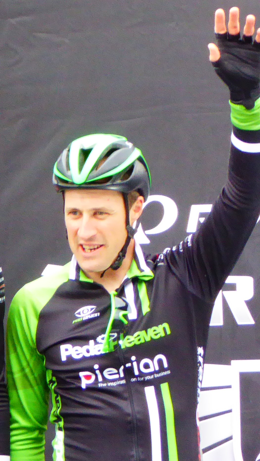 Ian Wilkinson, prior to Round 2 of the Pearl Izumi Tour Series in Motherwell, on 17 May 2016